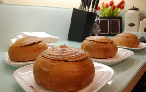 bosniak - small form bread from north of Slovakia, used in history as charity for poor people. this time used as stylish dish for soup or many kind food